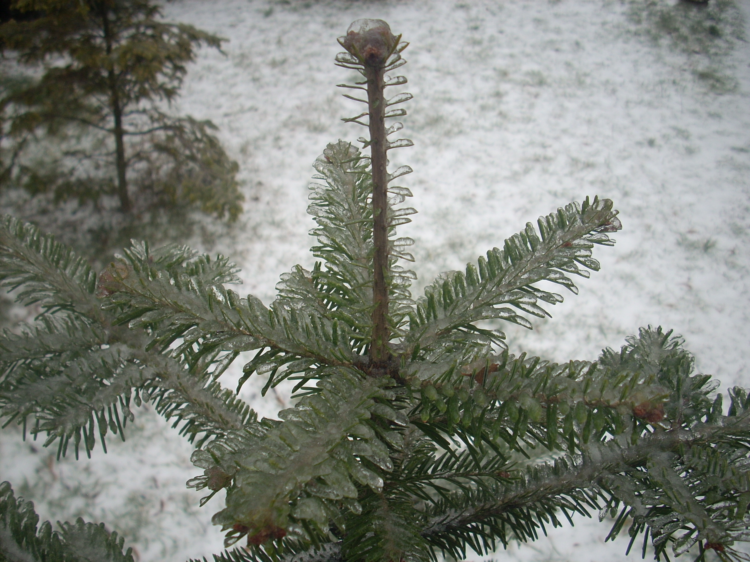 Freezed rain - Tomaszów Mazowiecki, Poland.